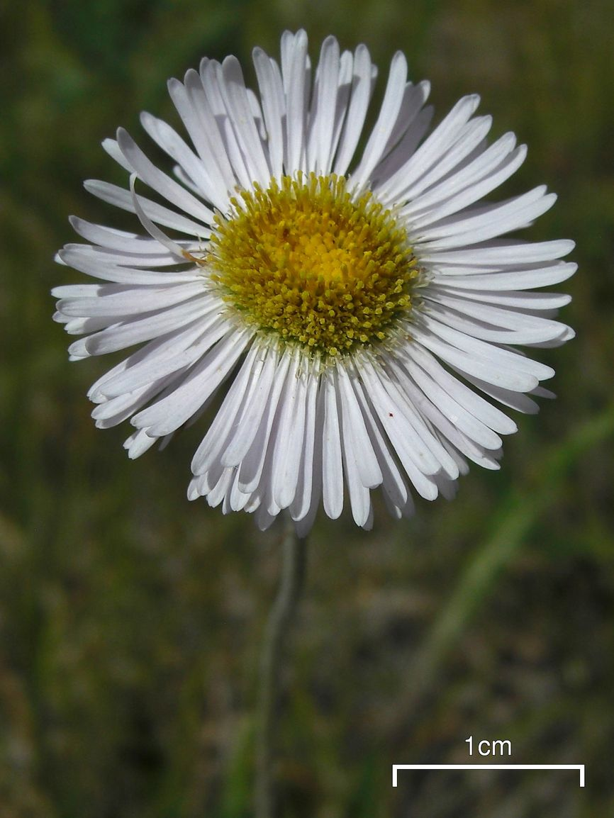 Erigeron glabellus Nutt. var. pubescens Hook. 20090622 (photo #45) Peace River, Alberta Names don't always make sense...